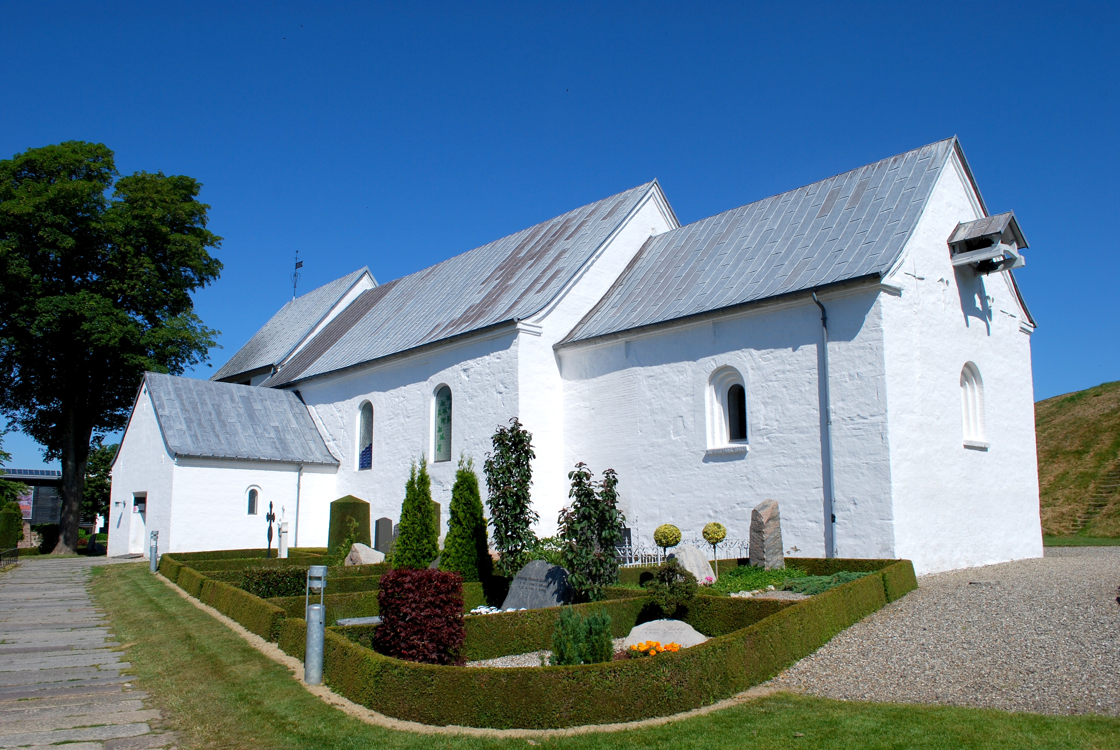 Church of Jelling, Jelling,Jylland, Denmark